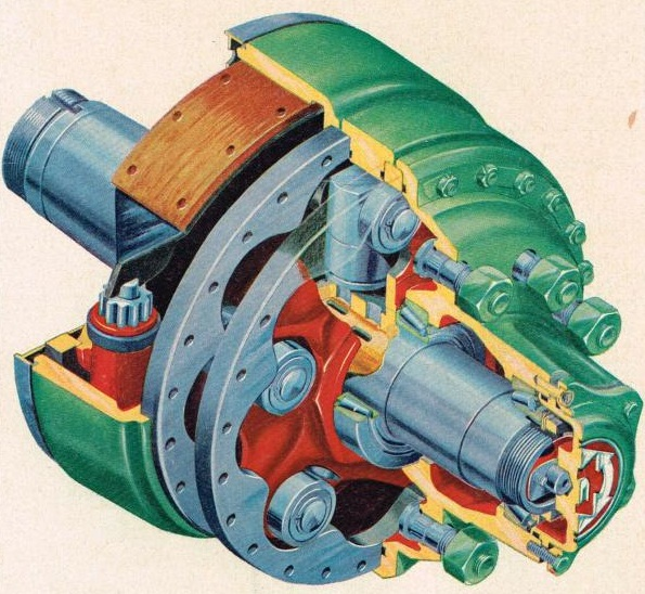 Schematic view on Sisu Nemo hydraulic radial motor built in a wheel hub.